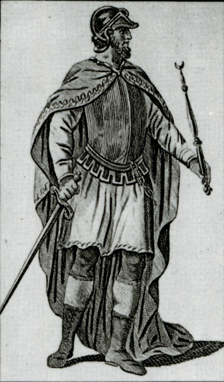 Eighteenth-century engraving of the early English king Edward the Elder. National Potrait Gallery (ER14678), National Portrait Gallery: NPG D8867